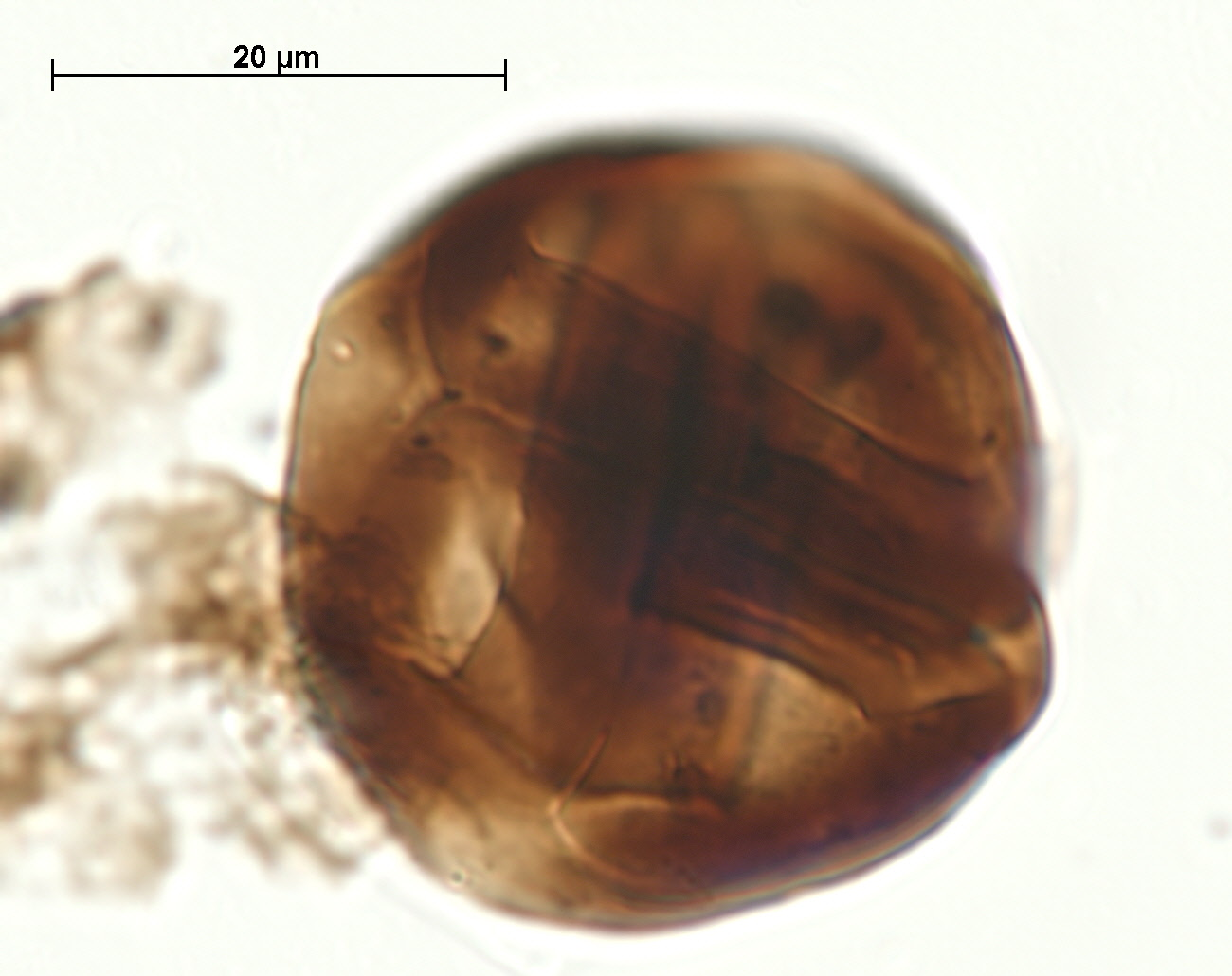 Cryptospore organised in tretrad (Tetrahedraletes medinensis)